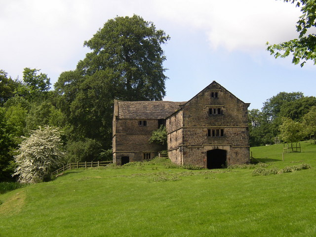 Malthouse, Kirklees Home Farm, Clifton. This 17C building is a rare survival, and is Grade 1 listed. It has three storeys and an attic, but the ceiling height is very low, as the object was to provide as large an area as possible for the processing of the grain and three floors were put into a building that would only have had two if it were a house. This has prevented the building from being converted to another use, and it is a credit to the Arymitage family that it has been preserved. The upper floors are made of lime-ash floor laid on rushes or lathes, and there is an orange Plimsoll line running round the building under the windows to indicate the maximum floor loadings.